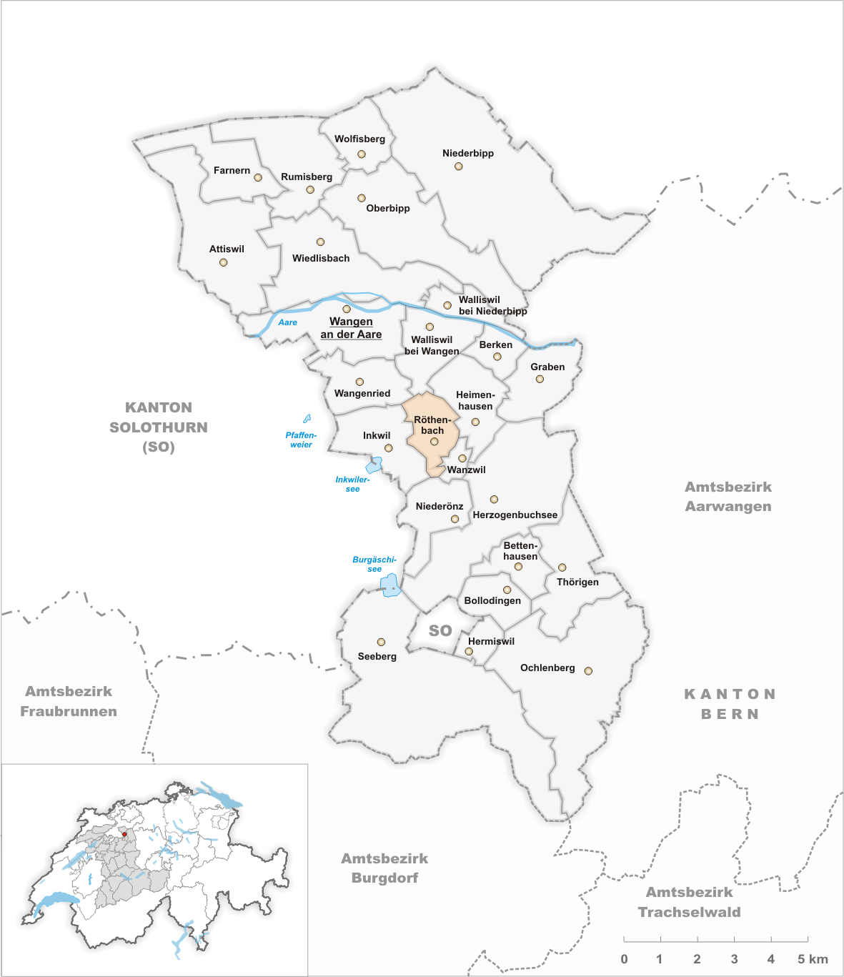 Municipality Röthenbach